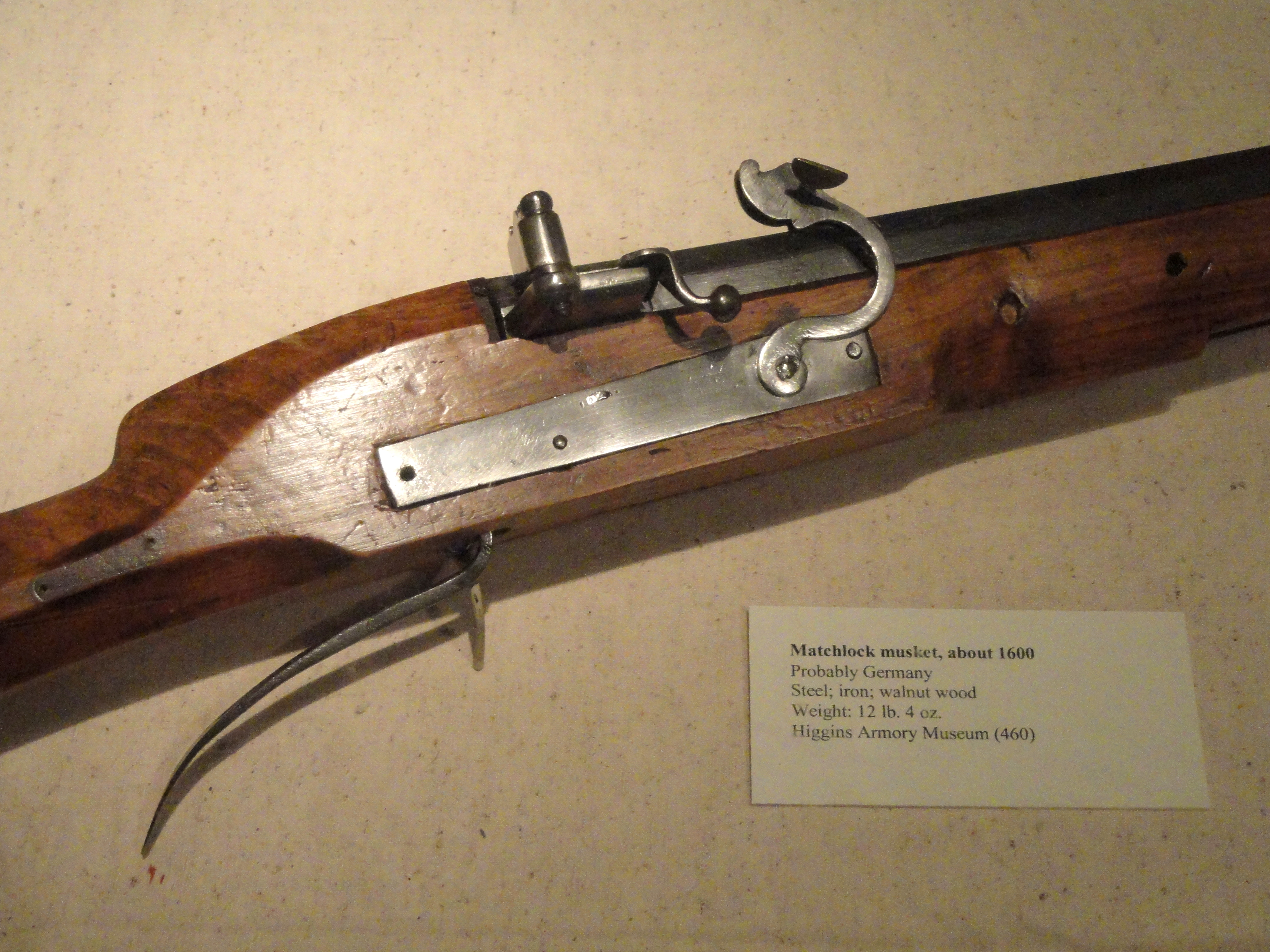 Exhibit in the Higgins Armory Museum, 100 Barber Avenue, Worcester, Massachusetts, USA. The museum permitted photography without any restriction, both in writing and when I asked verbally.